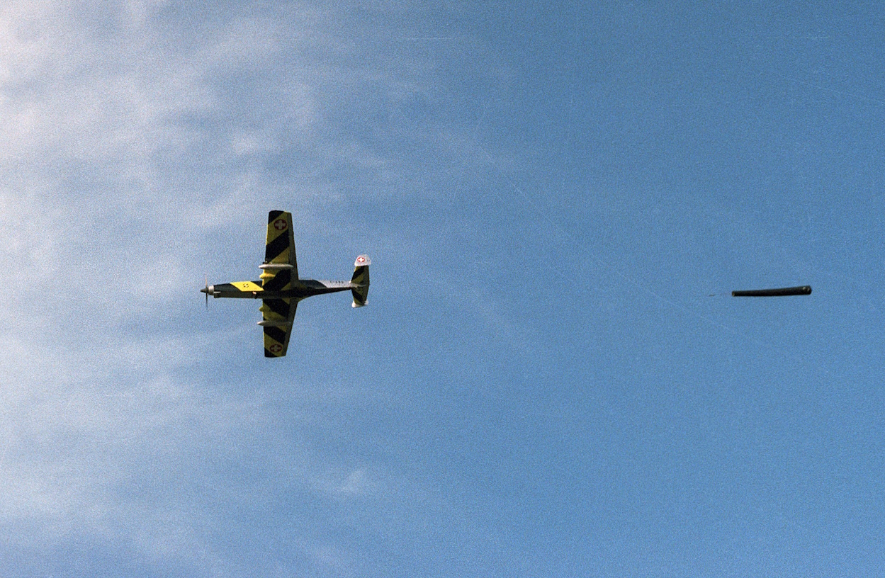 C-3605 target tug after its runs for the air defence gunnery. It has winched its target closer to the aircraft and is about to release it.